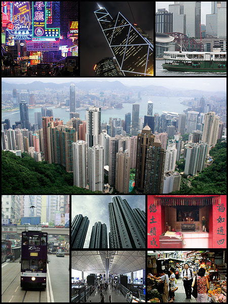 Hong Kong sceneries.